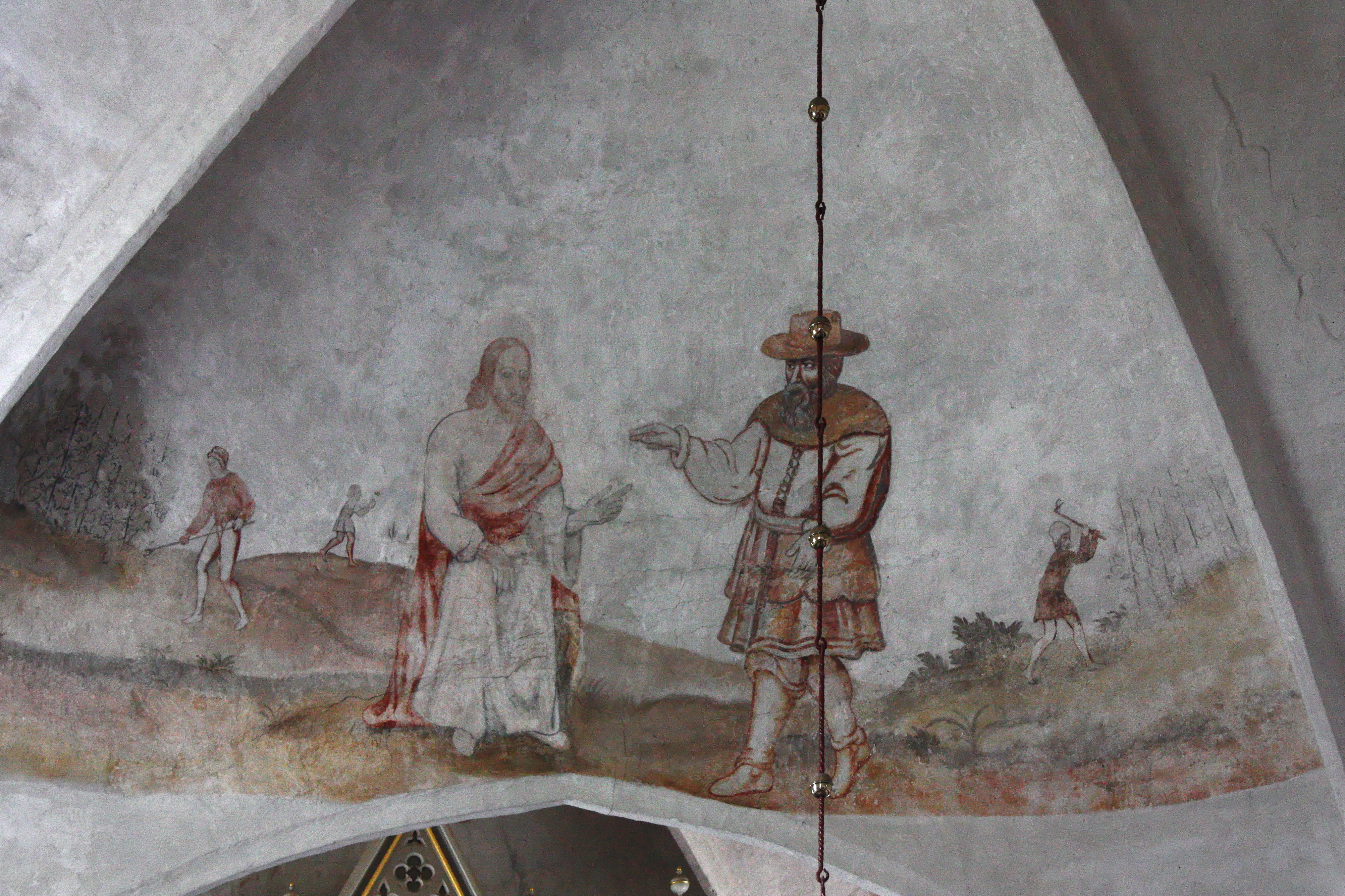 Church St. Laurentii, Süderende on the island of Föhr, painting on the ceiling